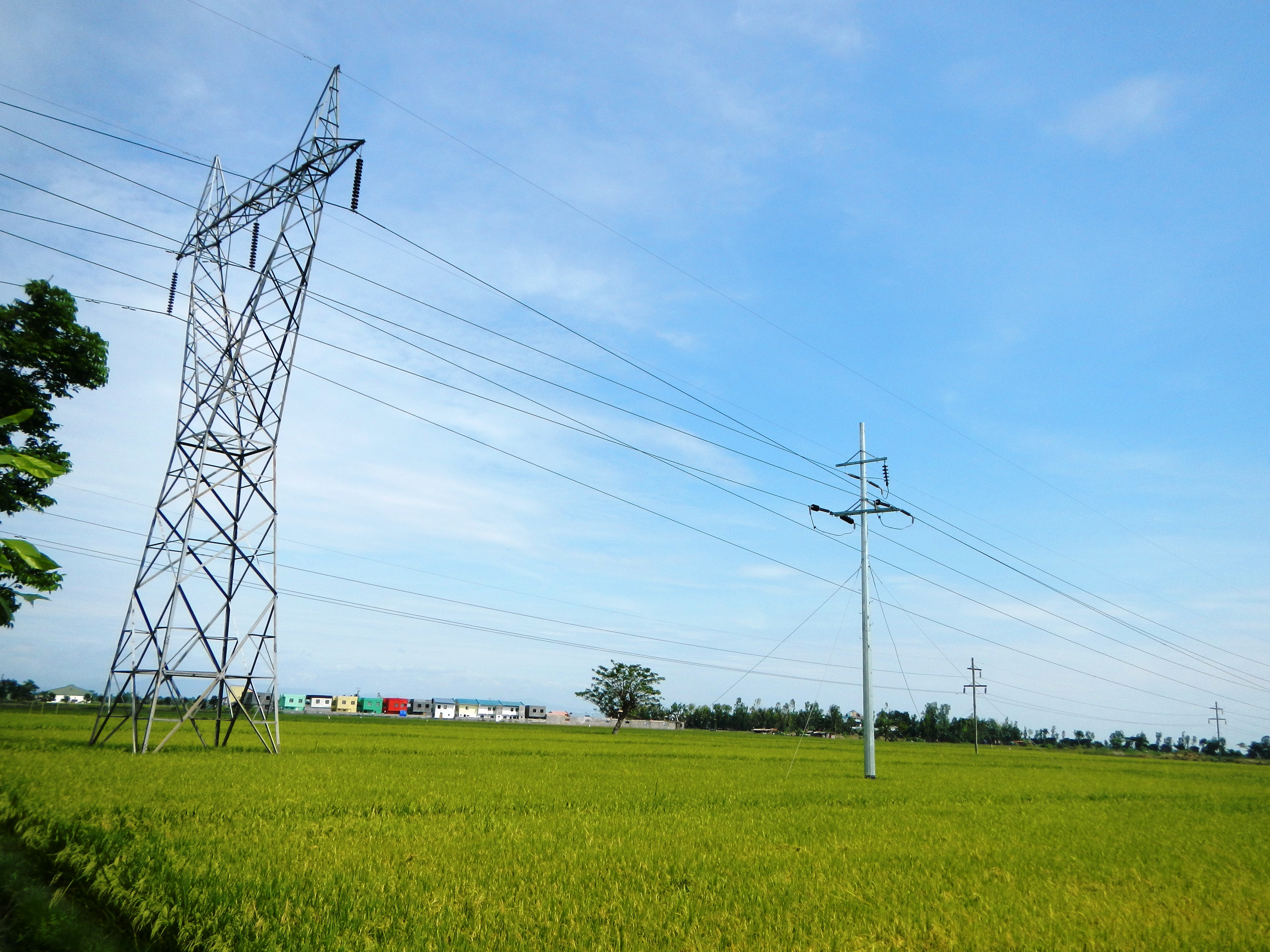 Paddy fields in Barangay Diversion, surrounding the Town hall and the San Leonardo Market Place (Diversion) and the San Leonardo Municipal Hall, Complex, Compound gateway to San Leonardo Fire Station beside Nueva Ecija University of Science and Technology - San Leonardo Campus, NEUST and Police Station, Petron gas station, along Daang Maharlika or Maharlika Highway, Pan-Philippine Highway).